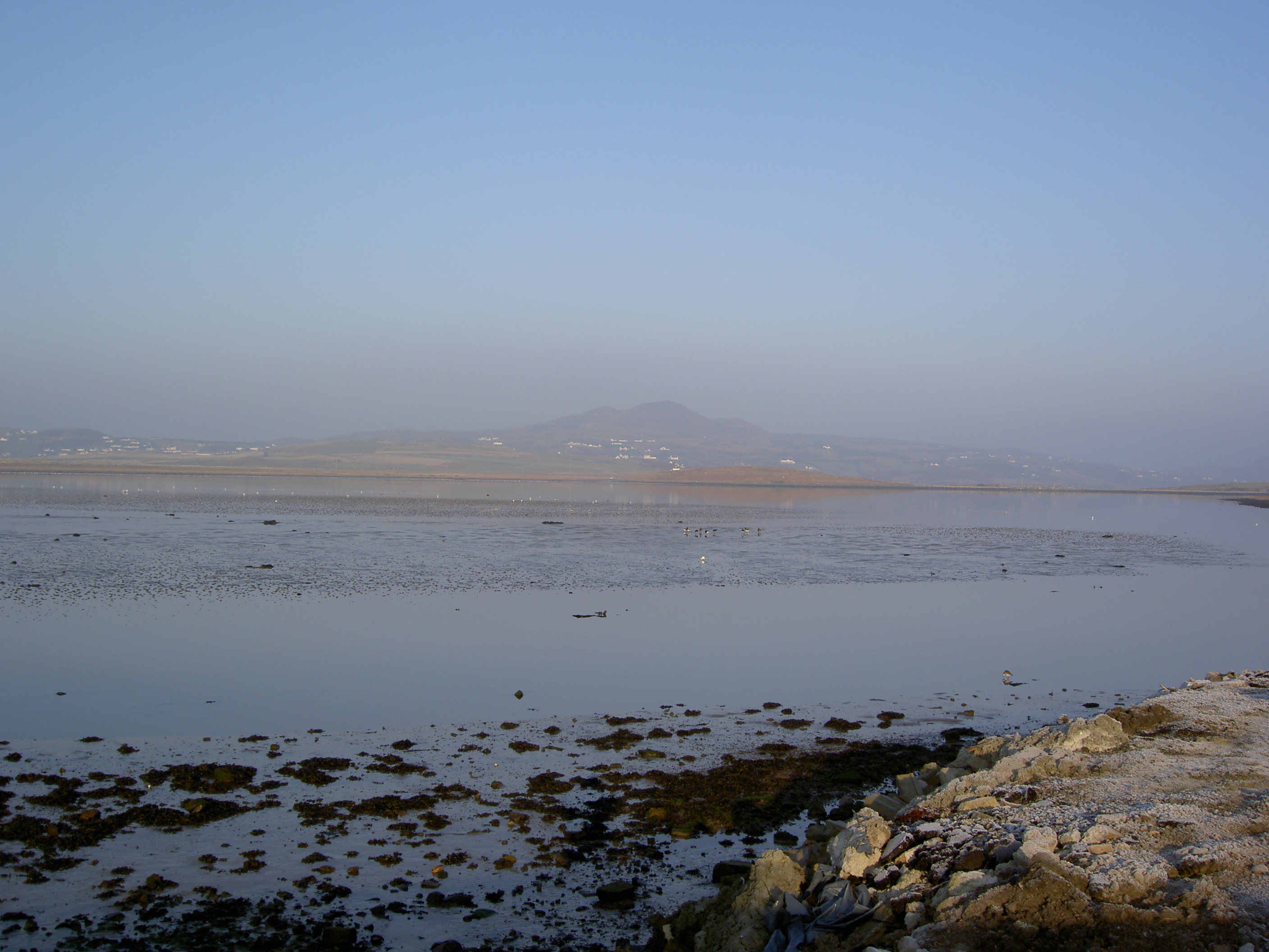 Downings from Carrigart